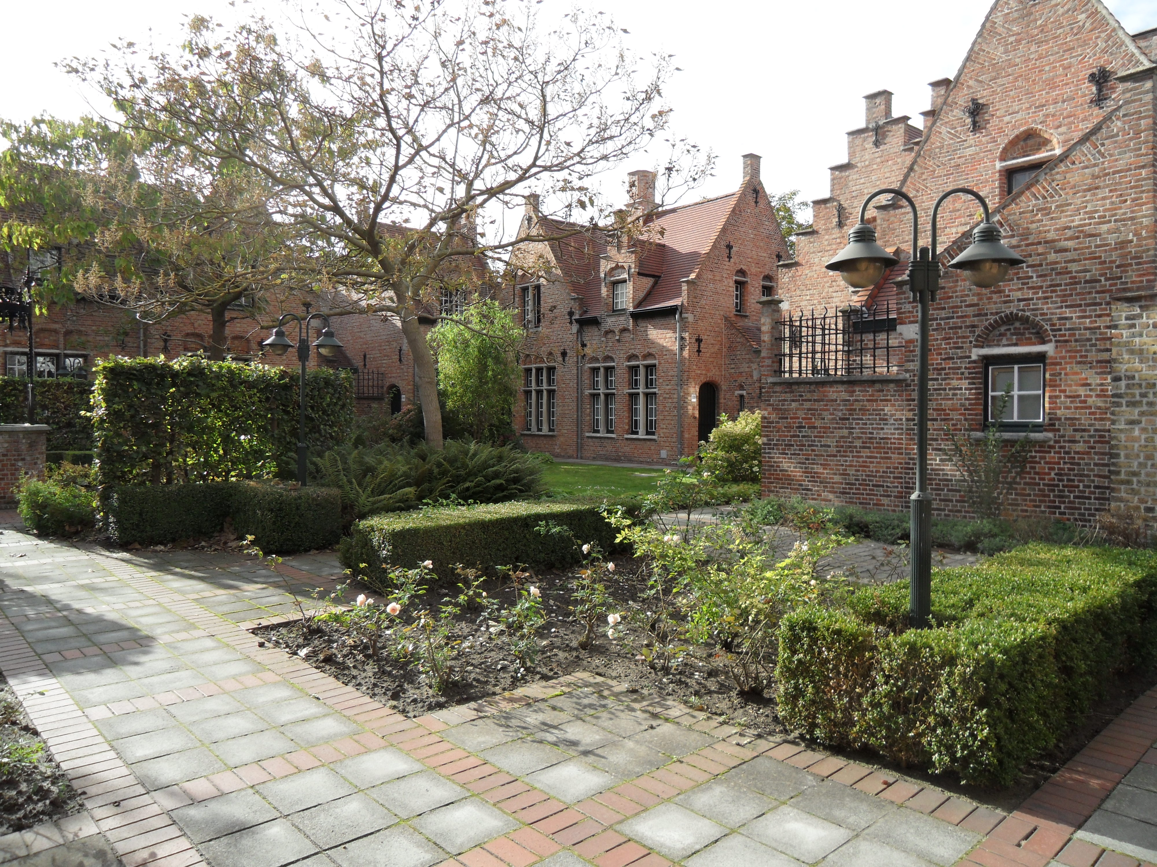 De Croeser